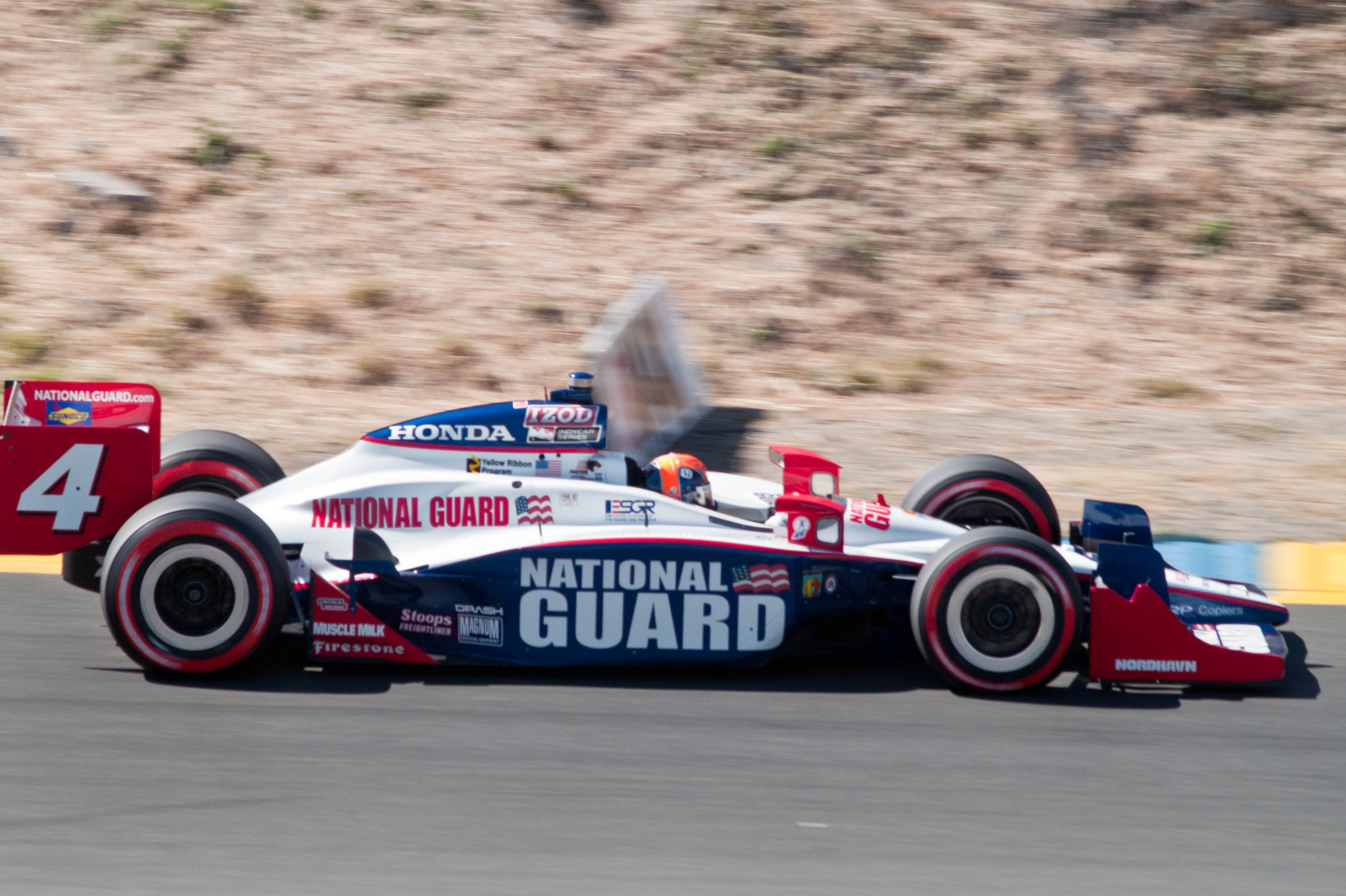 Dan Wheldon - National Guard Panther Racing